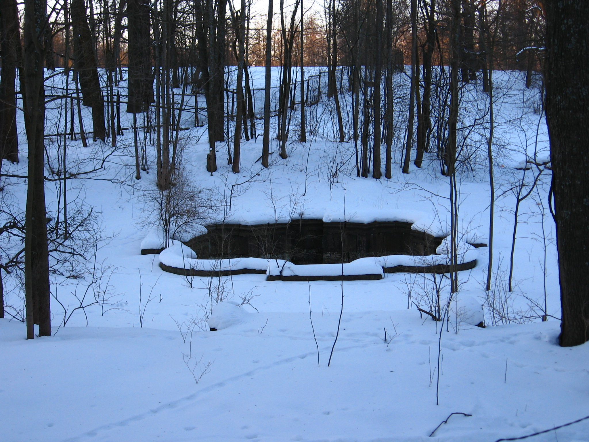 Octahedral well in Gatchina